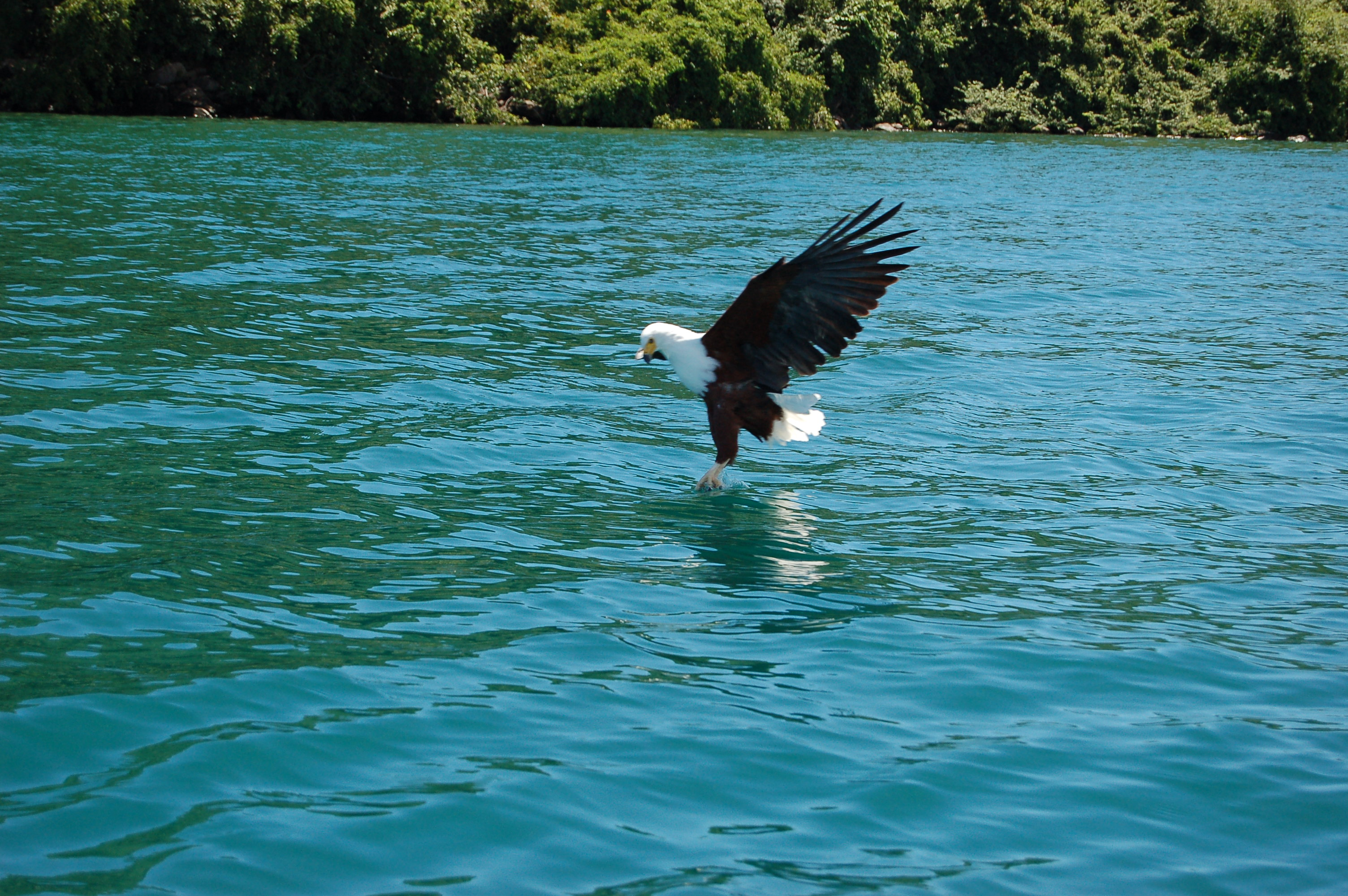 An African Fish Eagle near Cape Maclear, on the southern shore of Lake Malawi, Malawi.